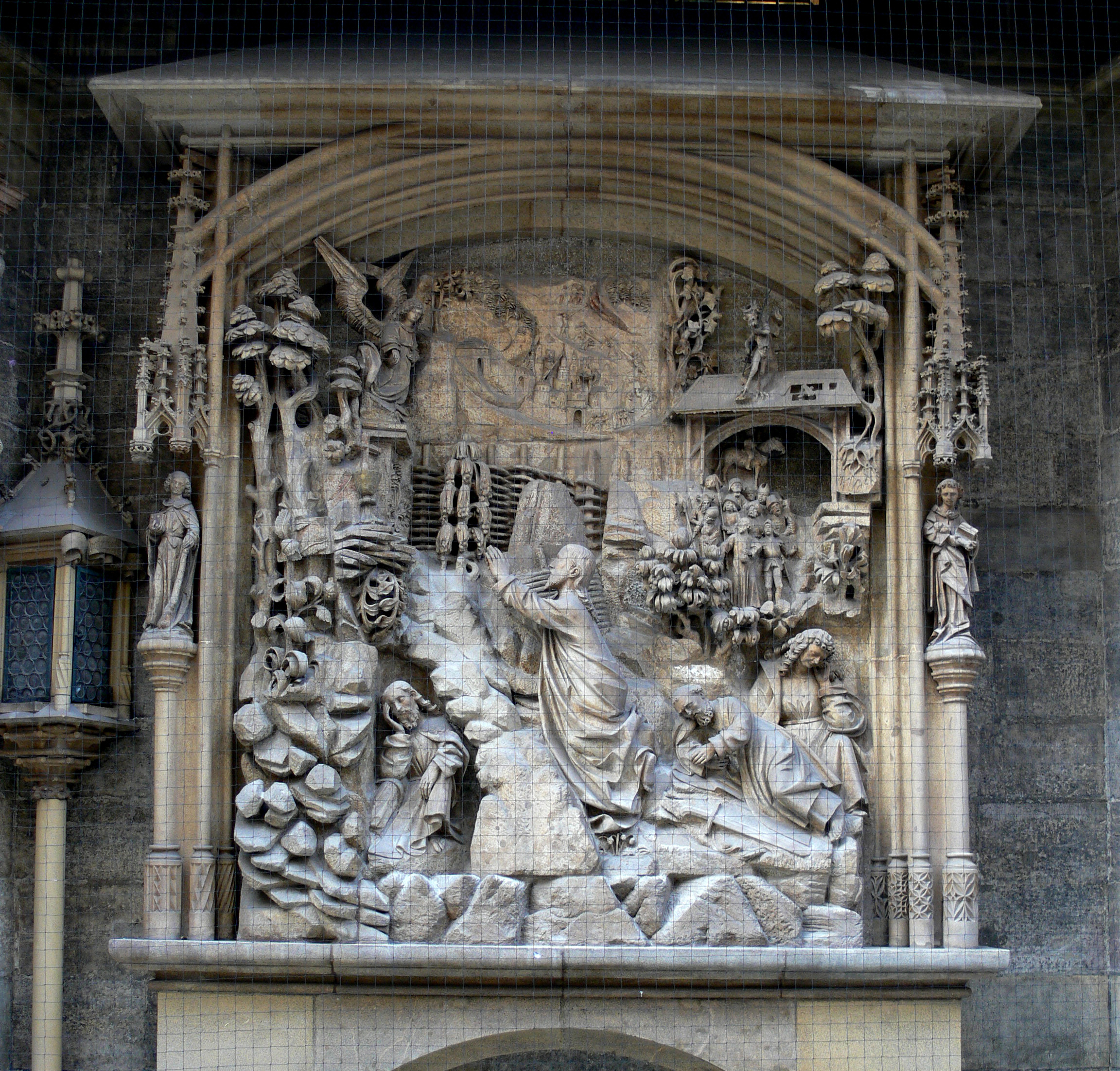 Stephansdom Christ in Gethsemane, Vienna